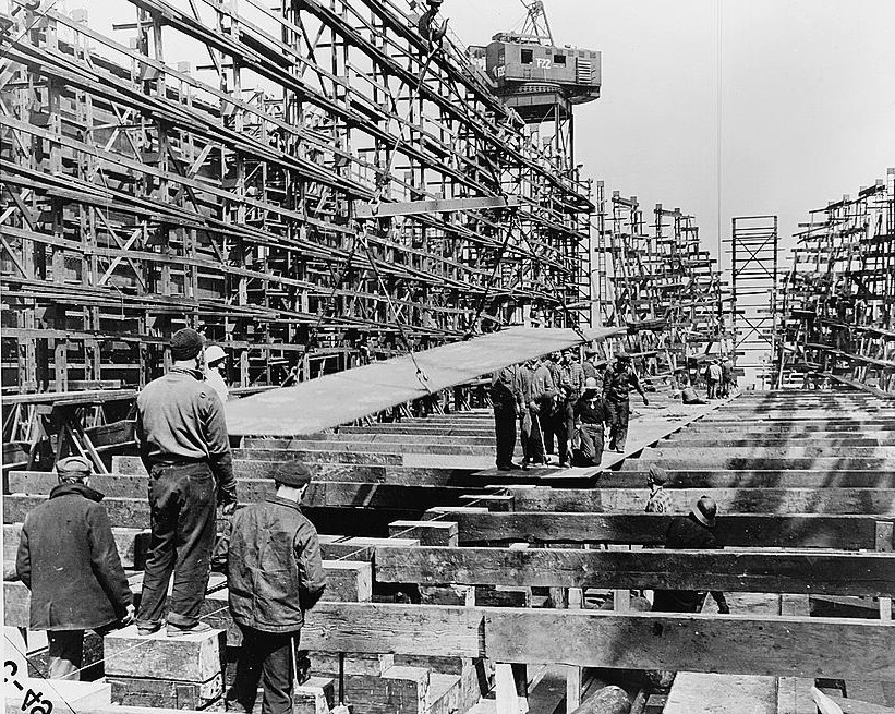 Construction of a Liberty ship at Bethlehem-Fairfield Shipyards Inc., Baltimore, Maryland (USA) in March/April 1943: Keel plates are being put in place on the second day of construction.Original caption: “Liberty ship keel laying Bethlehem Fairfield shipyards, near Baltimore, Maryland. Construction of a Liberty ship. On the second day all horizintal beams have been laid and keel blocks set at the proper pitch. Keel plates are being put in place” March 1943